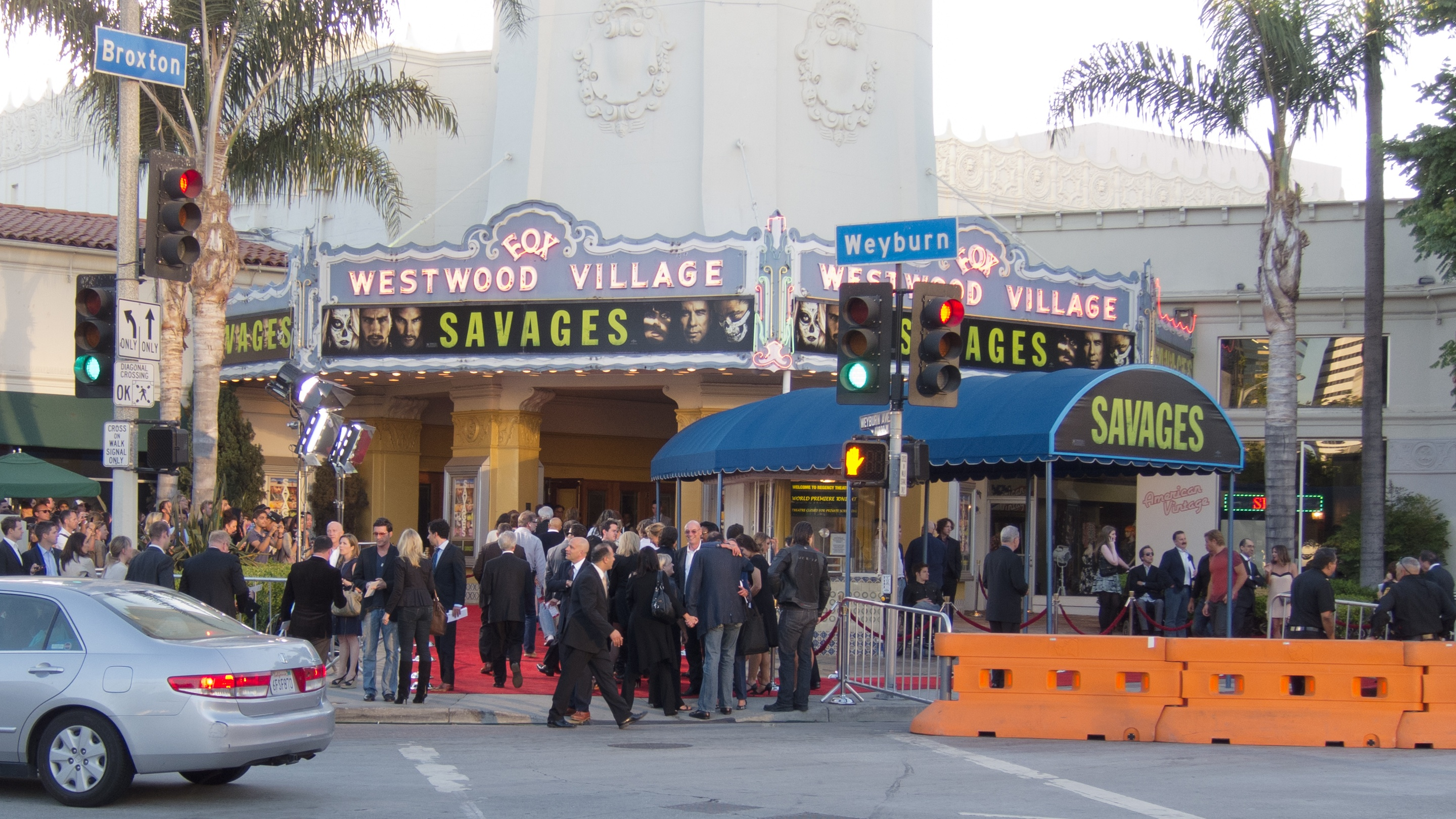 The premiere of Savages at Fox Theater in Westwood Village, Los Angeles, California.